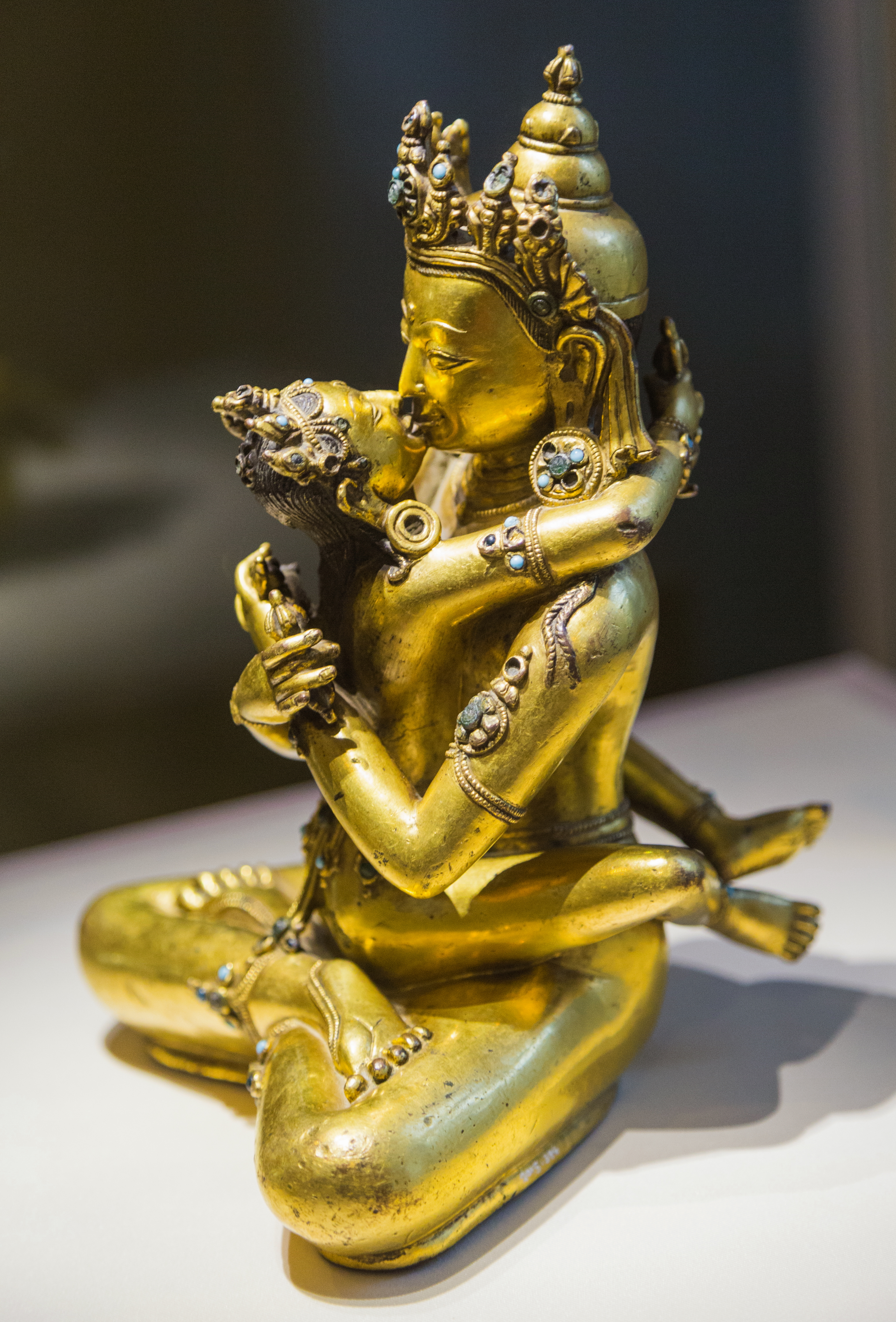 Vajradhara and Prajnaparamita. Nepal or Tibet, 14th or 15th century. Asian Civilisations Museum. Downtown Core, Central Region, Singapore.